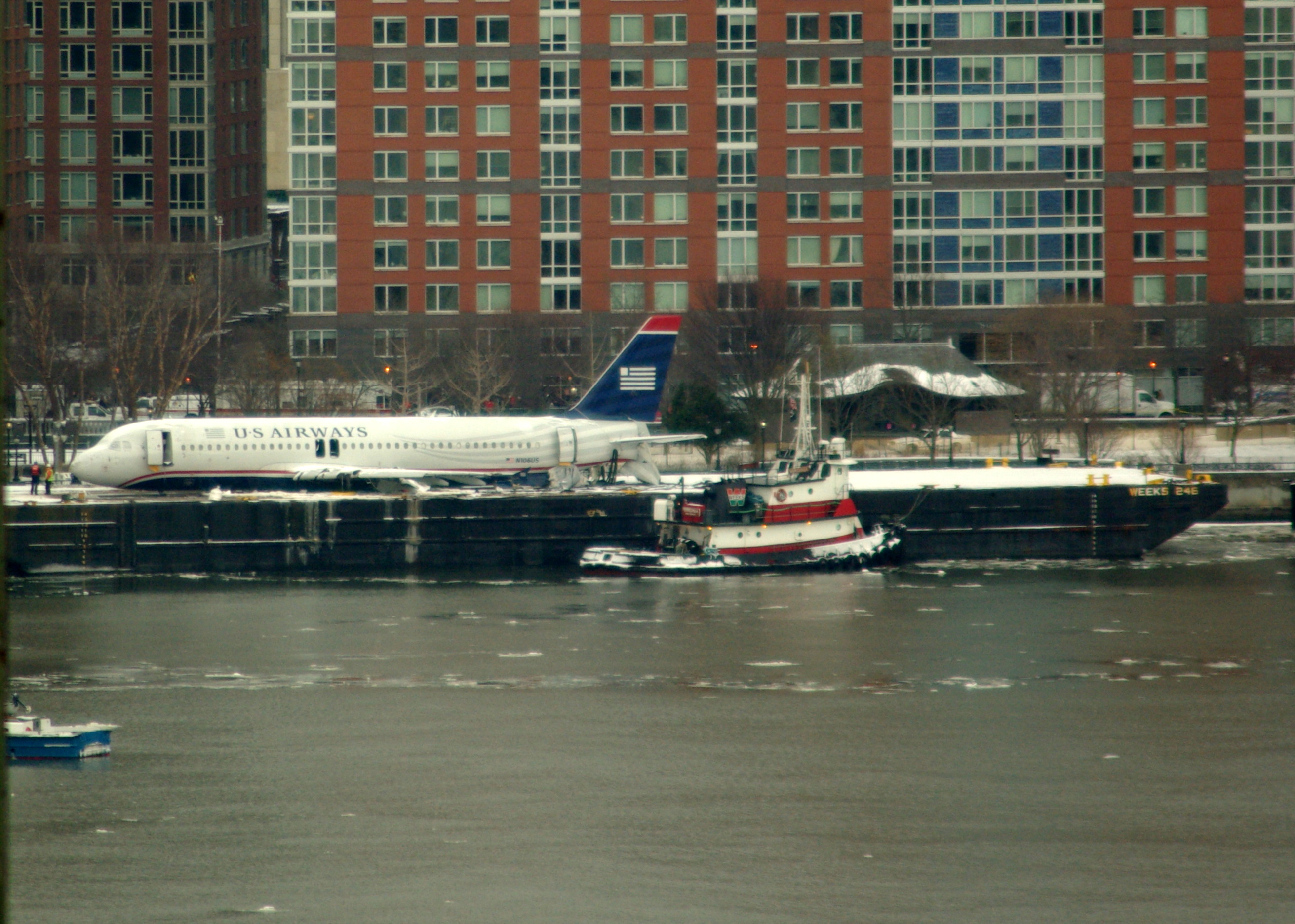 US Airways Flight 1549 resting on a barge next to Battery Park City, after being raised out of the Hudson River.